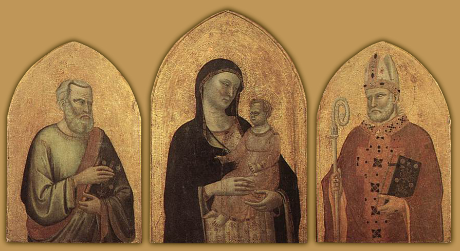 DADDI, Bernardo Madonna and Child with Sts Matthew and Nicholas Tempera on wood, 144 x 194 cm Galleria degli Uffizi, Florence